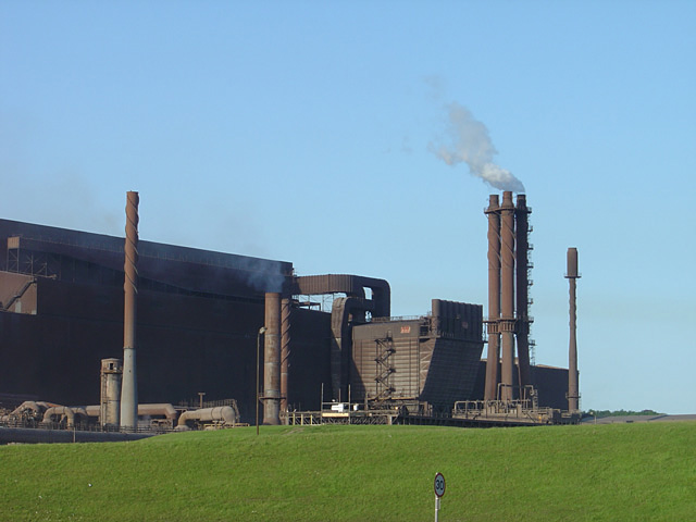 Basic Oxygen Conversion and Continuous Casting plant, Scunthorpe steelworks. In this building the molten iron from the blast furnaces is converted to steel and then cast into slabs, blooms and billets. These are then used as the basis of all further steel products.